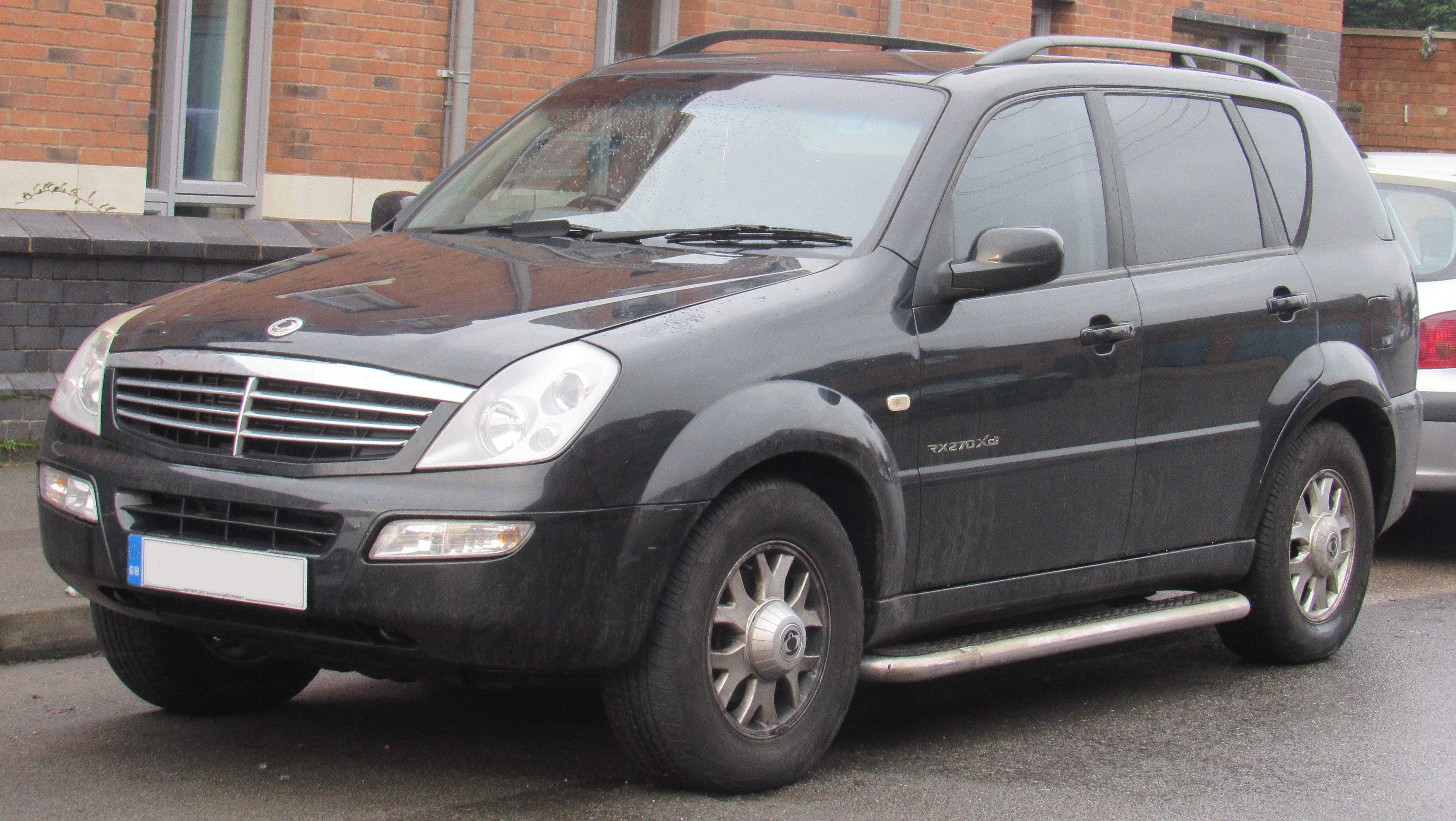 2005 SsangYong Rexton RX270 S 2.7 Front (Ugliest manufacturer wheels I ever seen.) Taken in Warwick